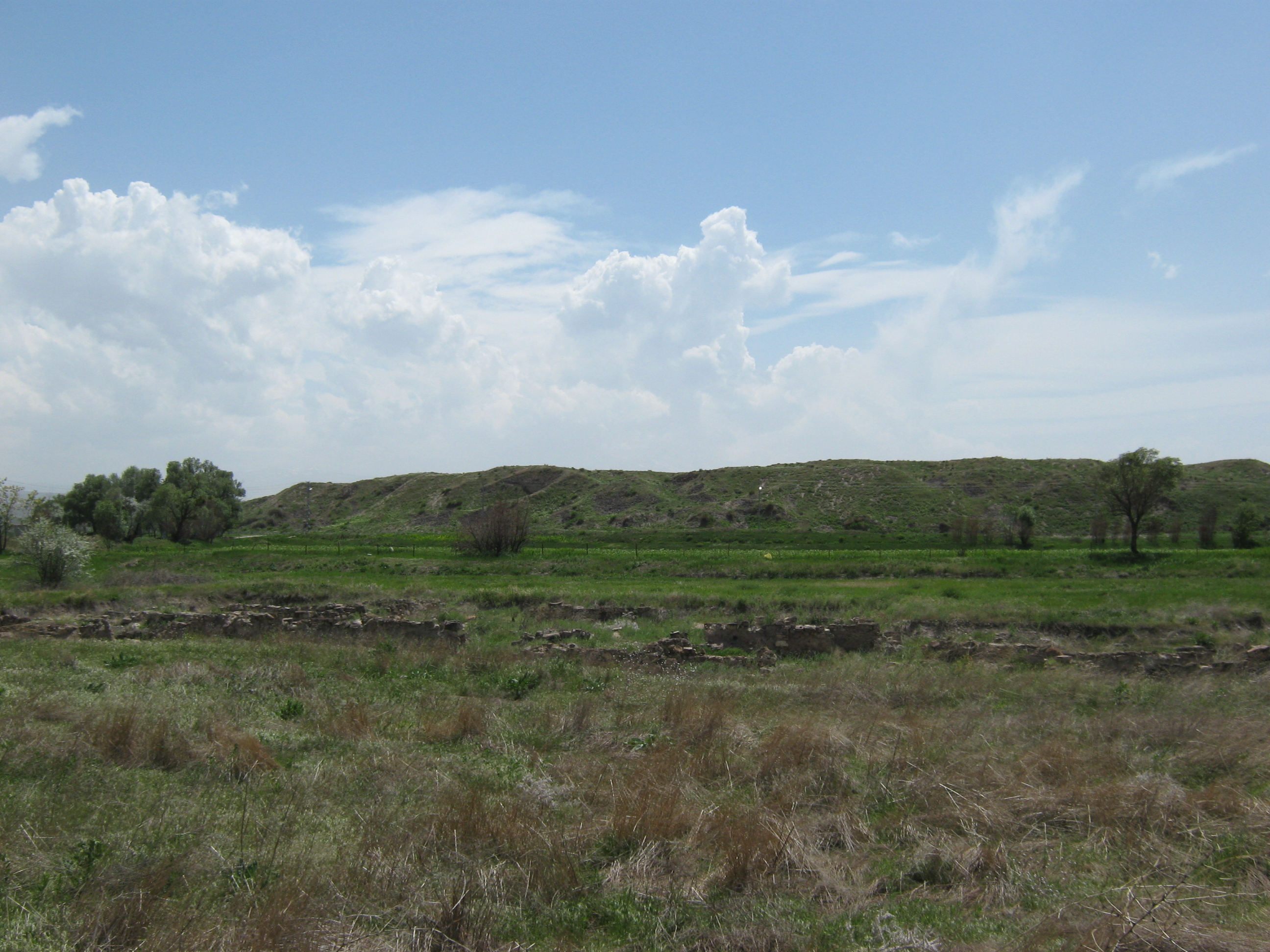 Kültepe mound viewn from the lower Town